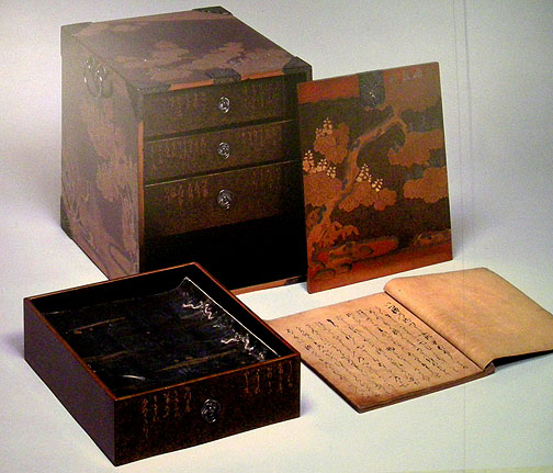 Oldest Genji Monogatari Kawachi-bon manuscripts